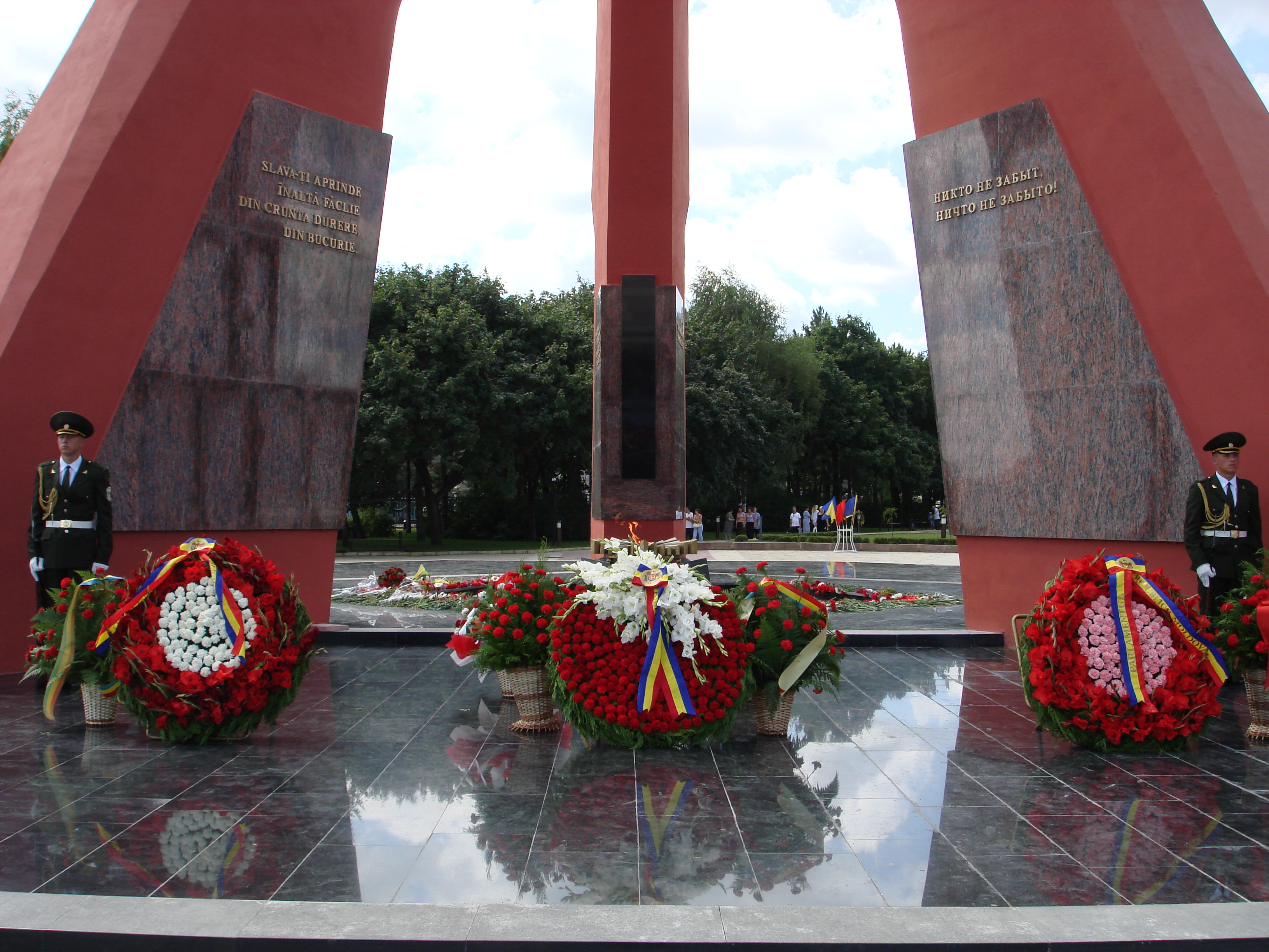 Memorial complex «Eternitate»